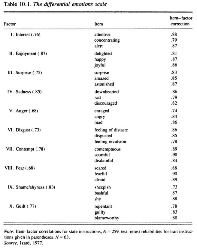 The DES items